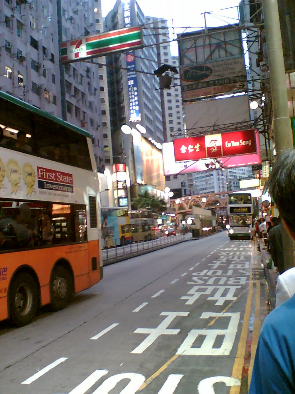 Photo of Yee Wo Street